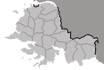 Map of Hwanghae-namdo, DPRK, 2006